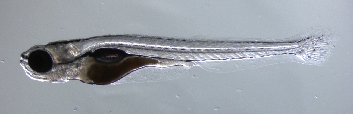 Zebrafish (Danio rerio)